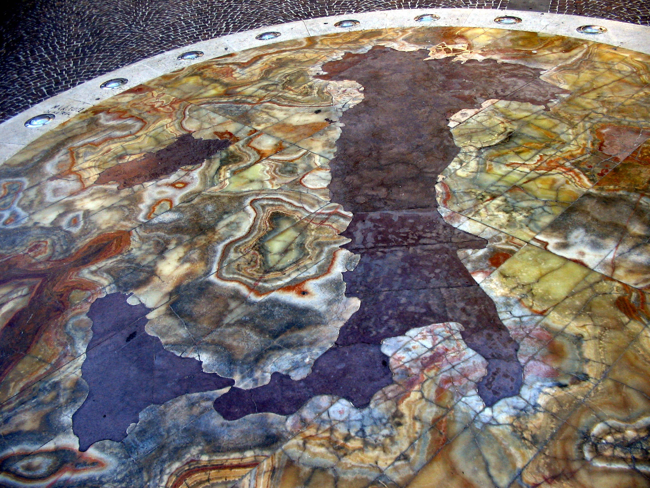 Italy - Piazza San Rufo - Rieti, Lazio, Italia